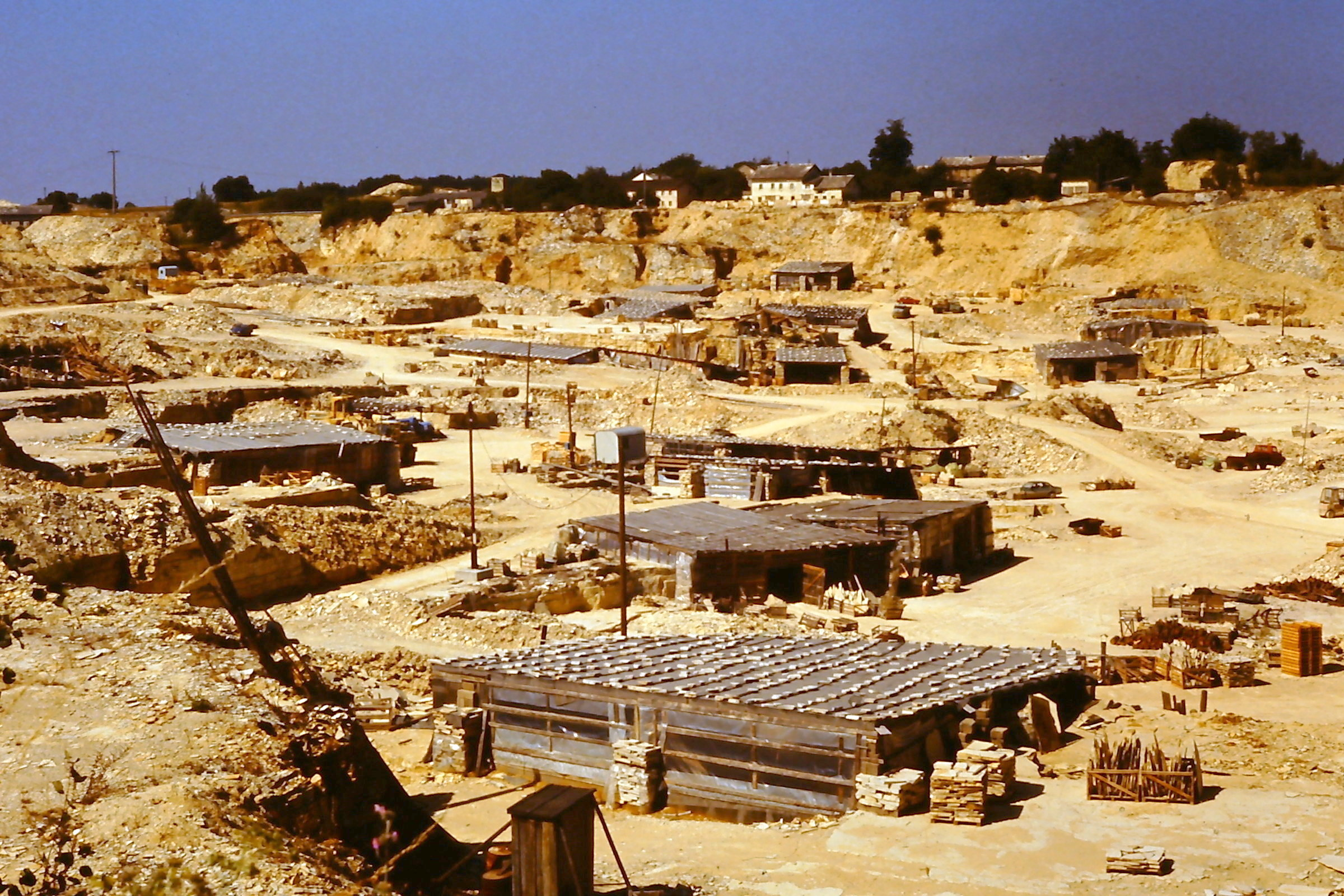 Solnhofen Limestones quarry. Maxberg, Solnhofen, Germany